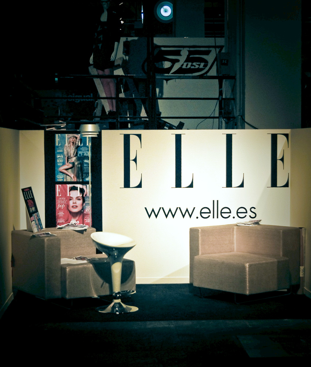 Elle magazine at The Brandery Winter Edition 2010.jpg